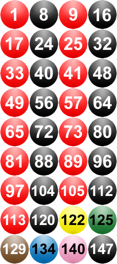 Maximum break with points. From left to right, top to bottom.